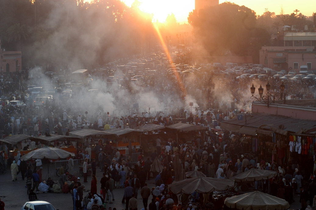 Typical evening sceen on place Djemaa el Fna in Marrakech, showing food stalls and circles of people around story tellers and magicians. The place is classified as a "Masterpiece of the Oral and Intangible Heritage of Humanity" by UNESCO. Picture taken on January 1, 2003.